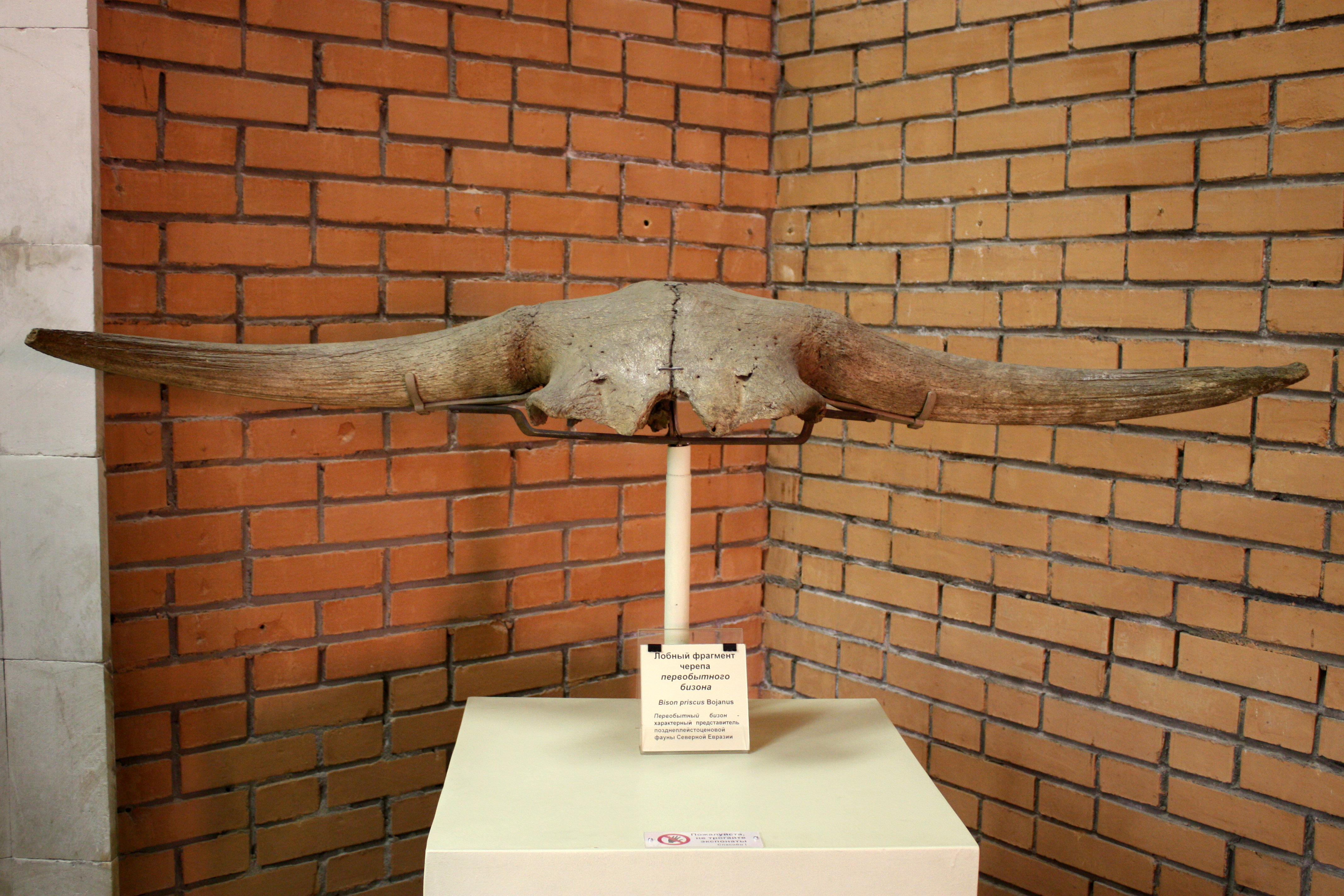 Museum description (in Russian): "Frontal fragment of Bison priscus skull. The primordial bison was a typical representative of late pleistocene fauna of Northern Eurasia."